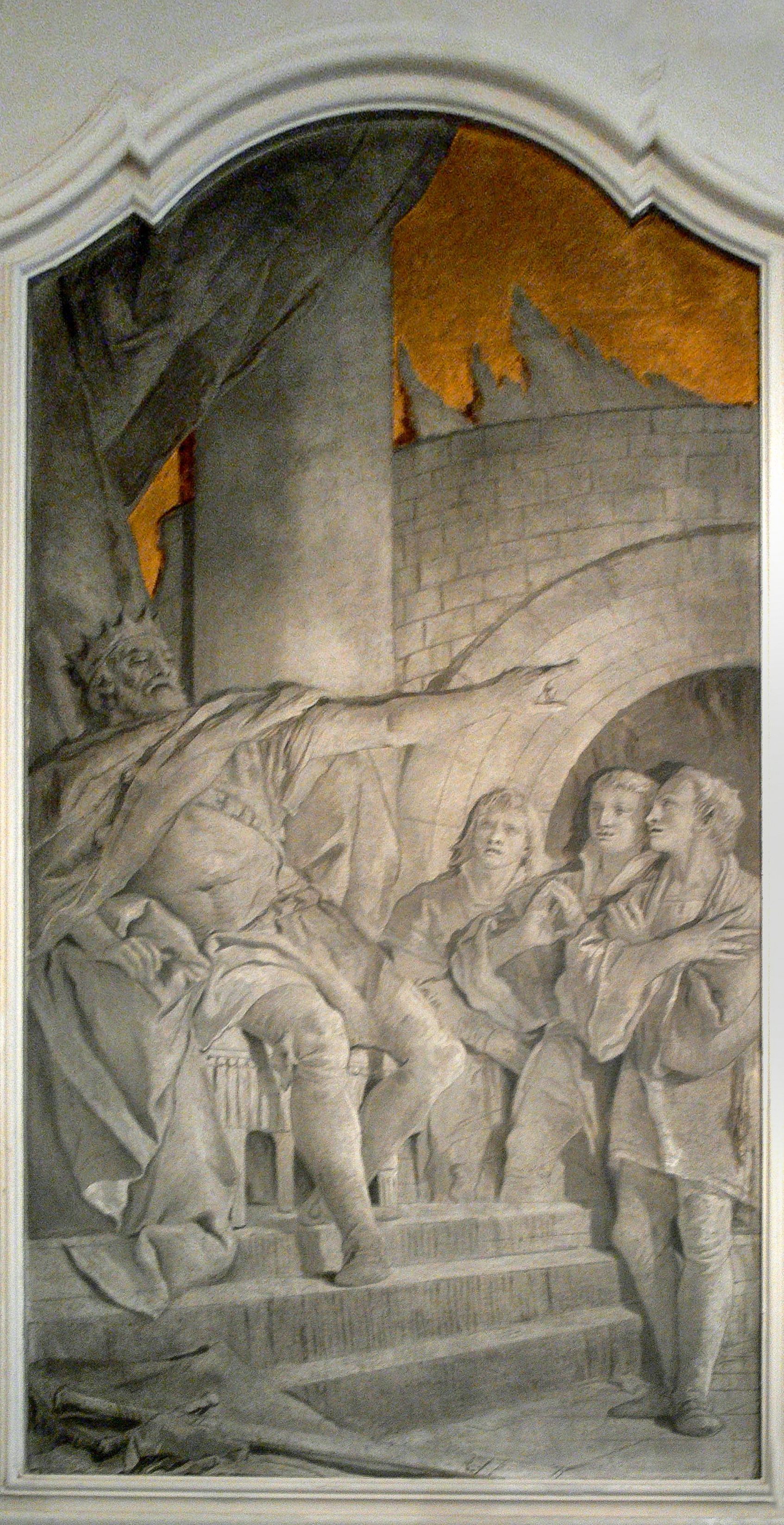 Nebuchadnezar sending the three young men into the fiery furnacelabel QS:Len,"Nebuchadnezar sending the three young men into the fiery furnace" label QS:Lde,"Nebukadnezar schickt die drei Jünglinge in den Feuerofen"